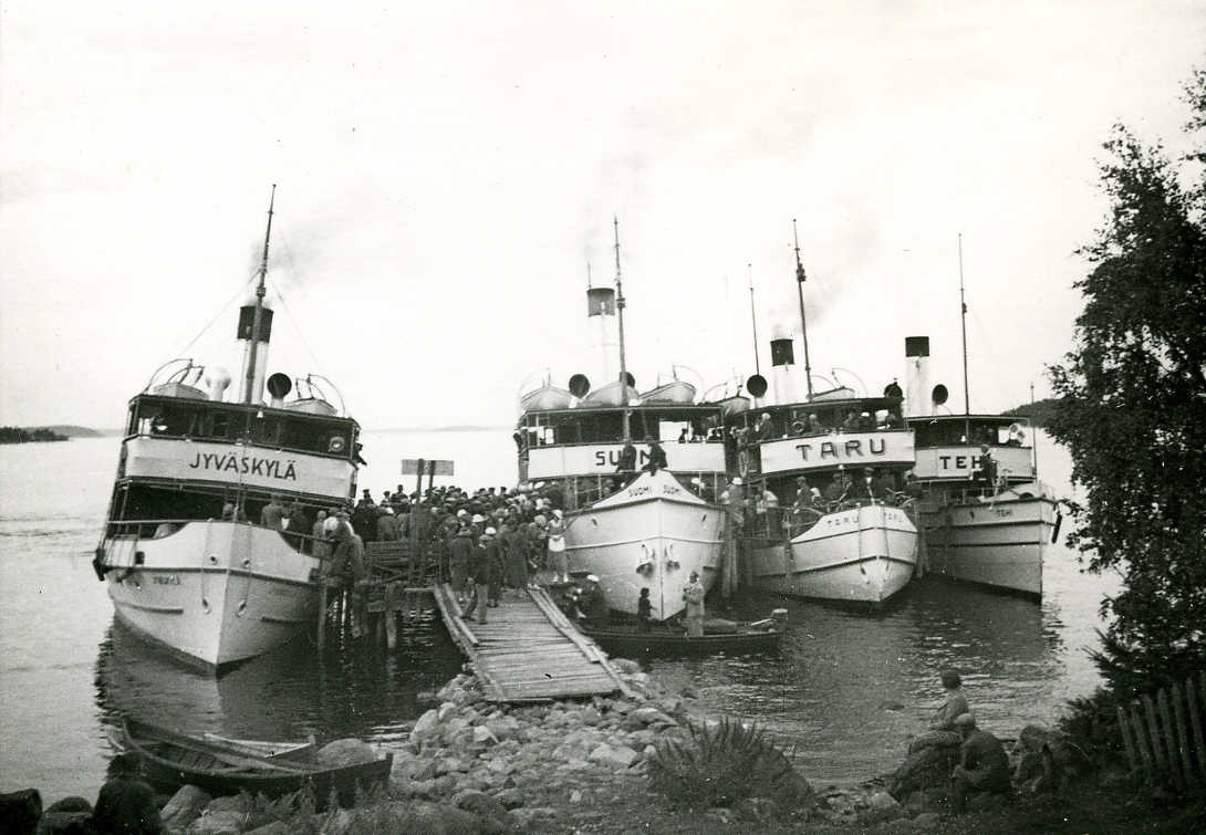 Passenger steam ships S/S Jyväskylä, S/S Suomi, S/S Taru and S/S Tehi in Finland in 1936